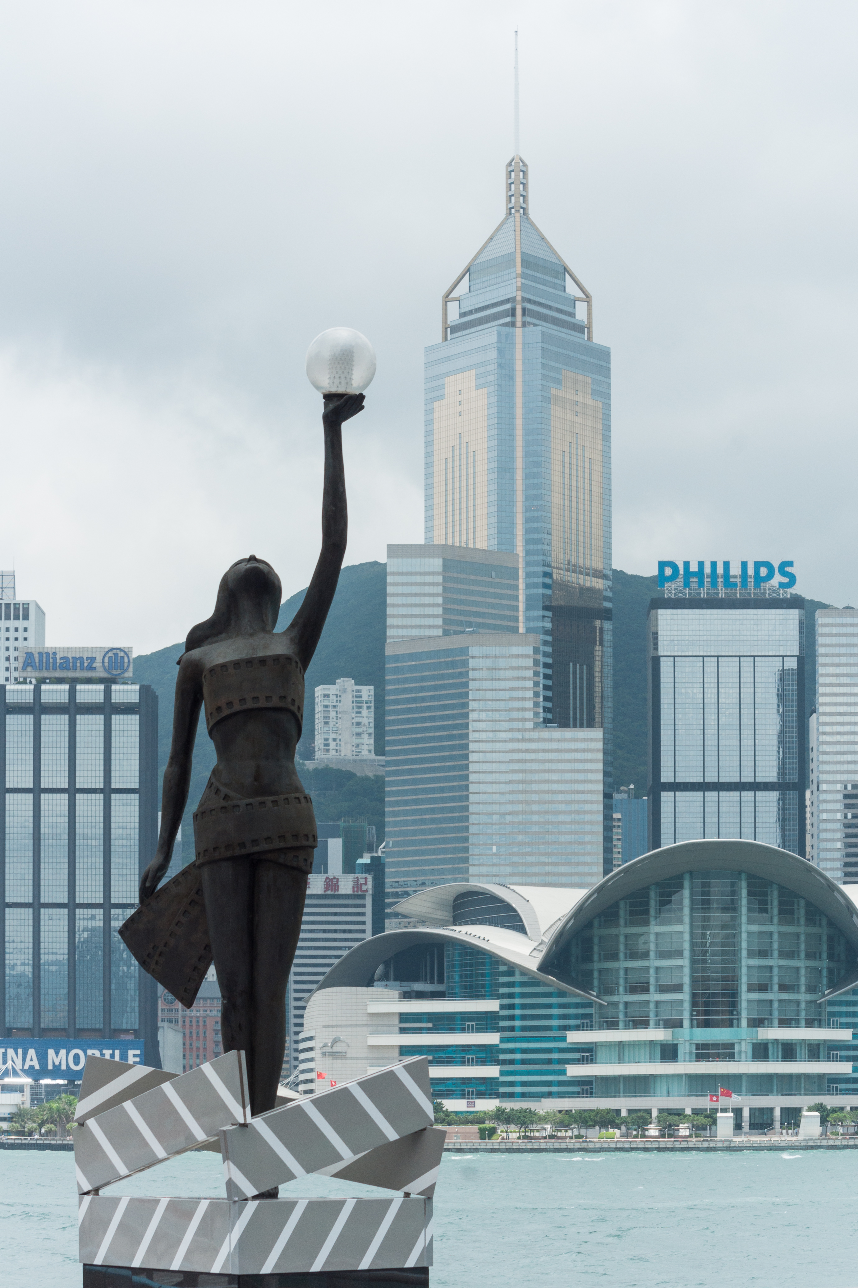 Hong Kong, China: Avenue of Stars